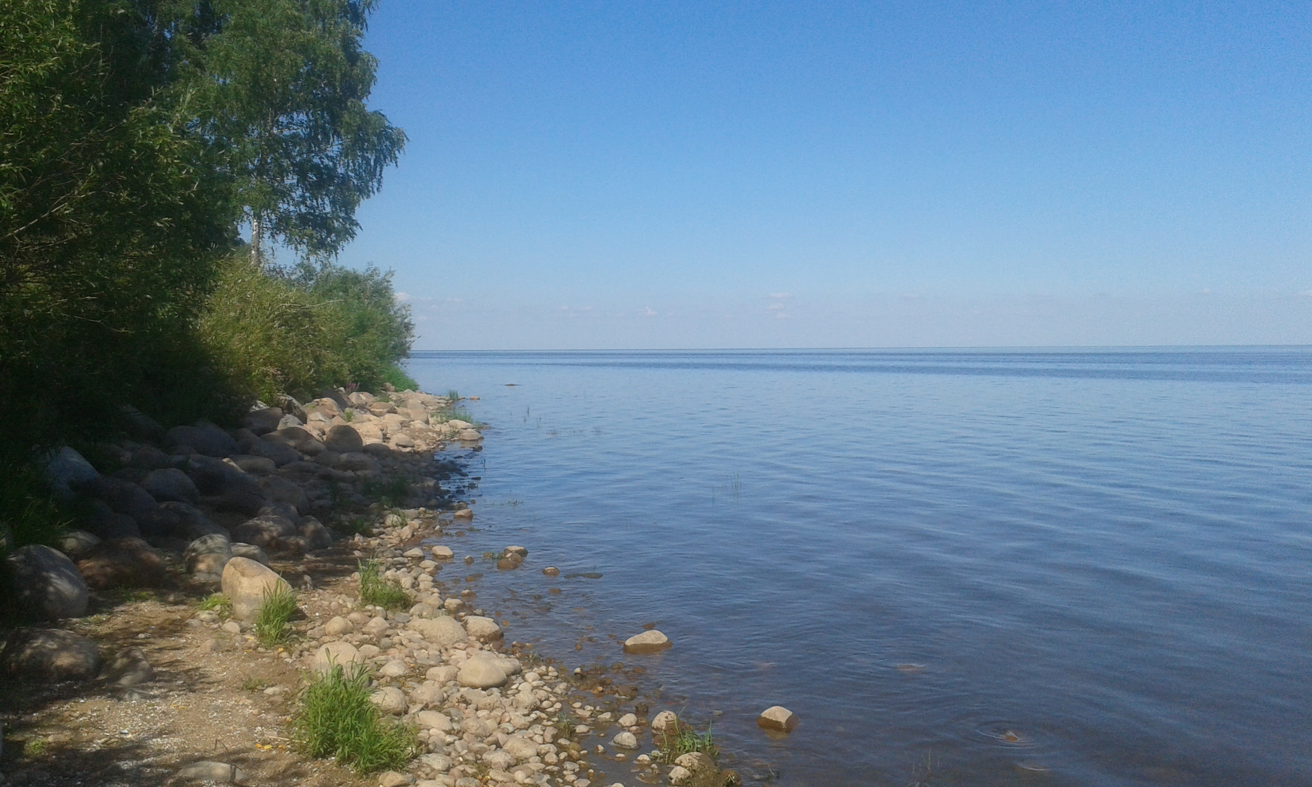 Peipsi järv Kallaste Mustvee vahel